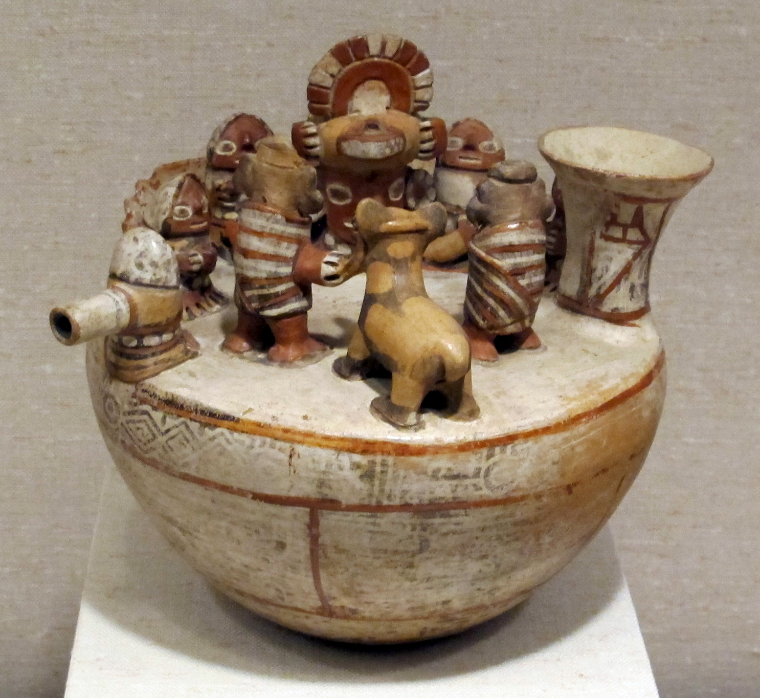 Pre-Columbian art in the Metropolitan Museum of Art